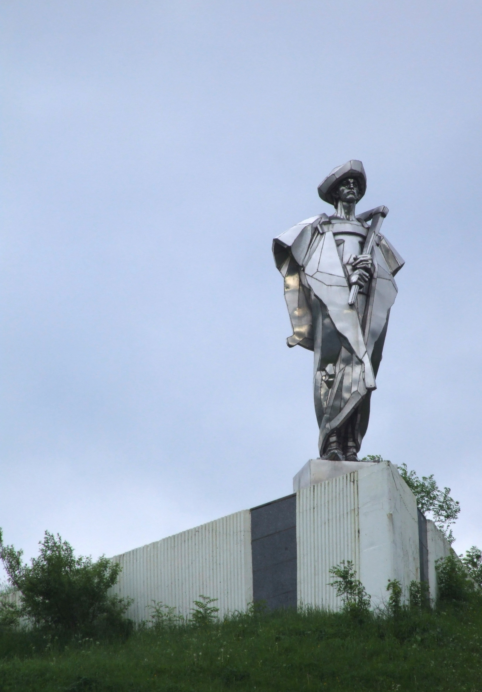 Statue of Juraj Jánošík in Terchová